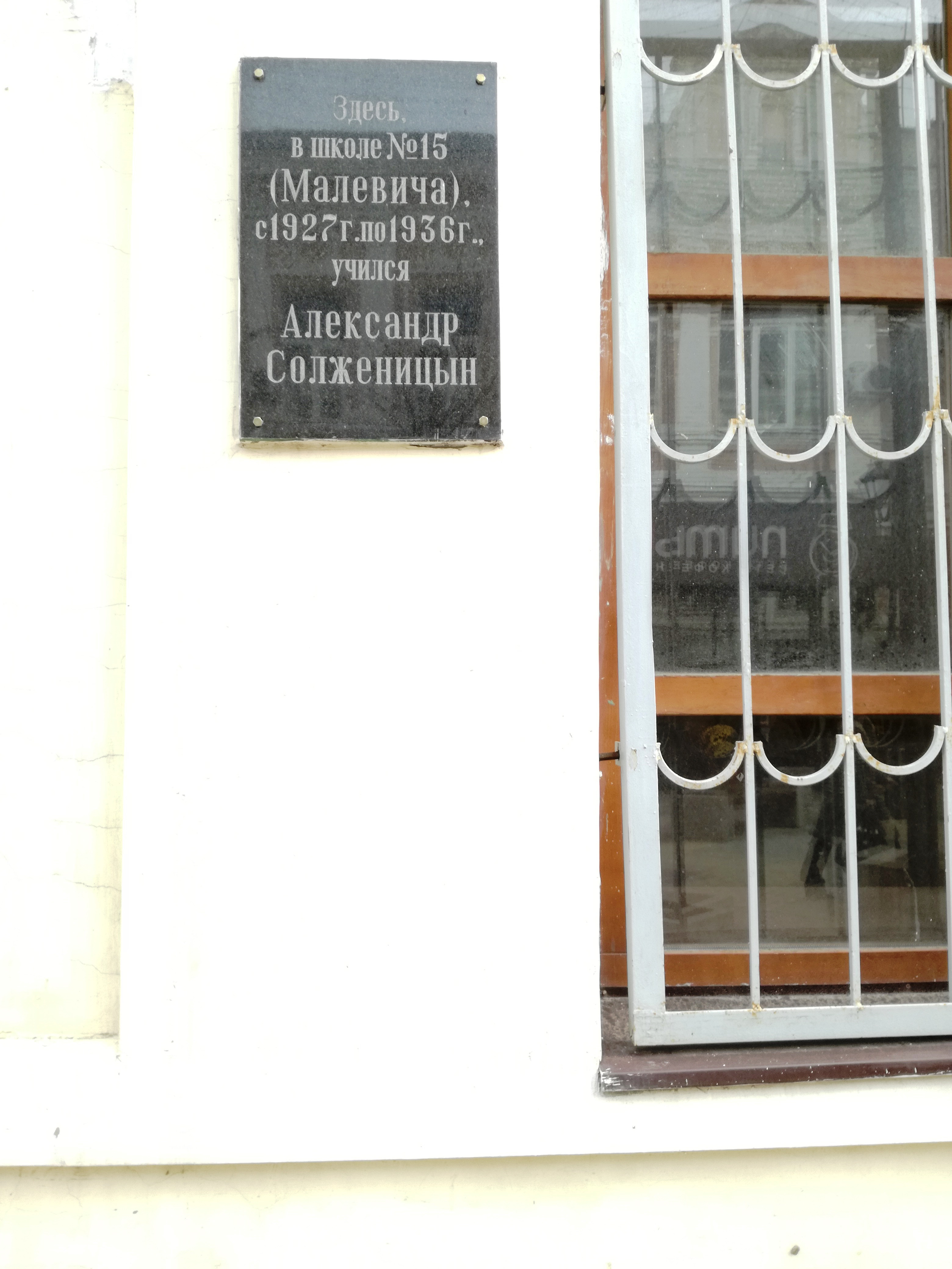 Rostov